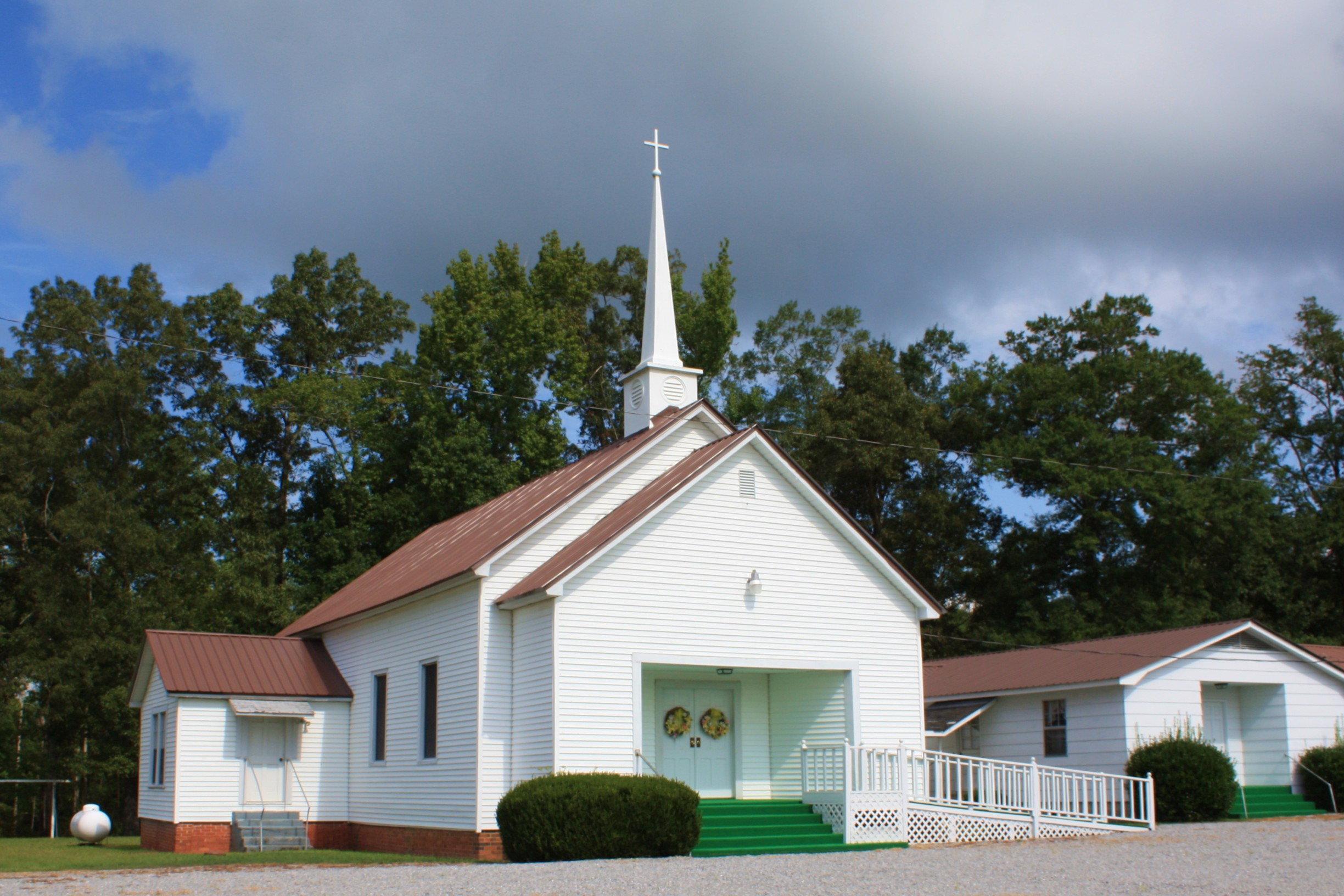 County Line Baptist Church in Arlington, Wilcox County, Alabama.